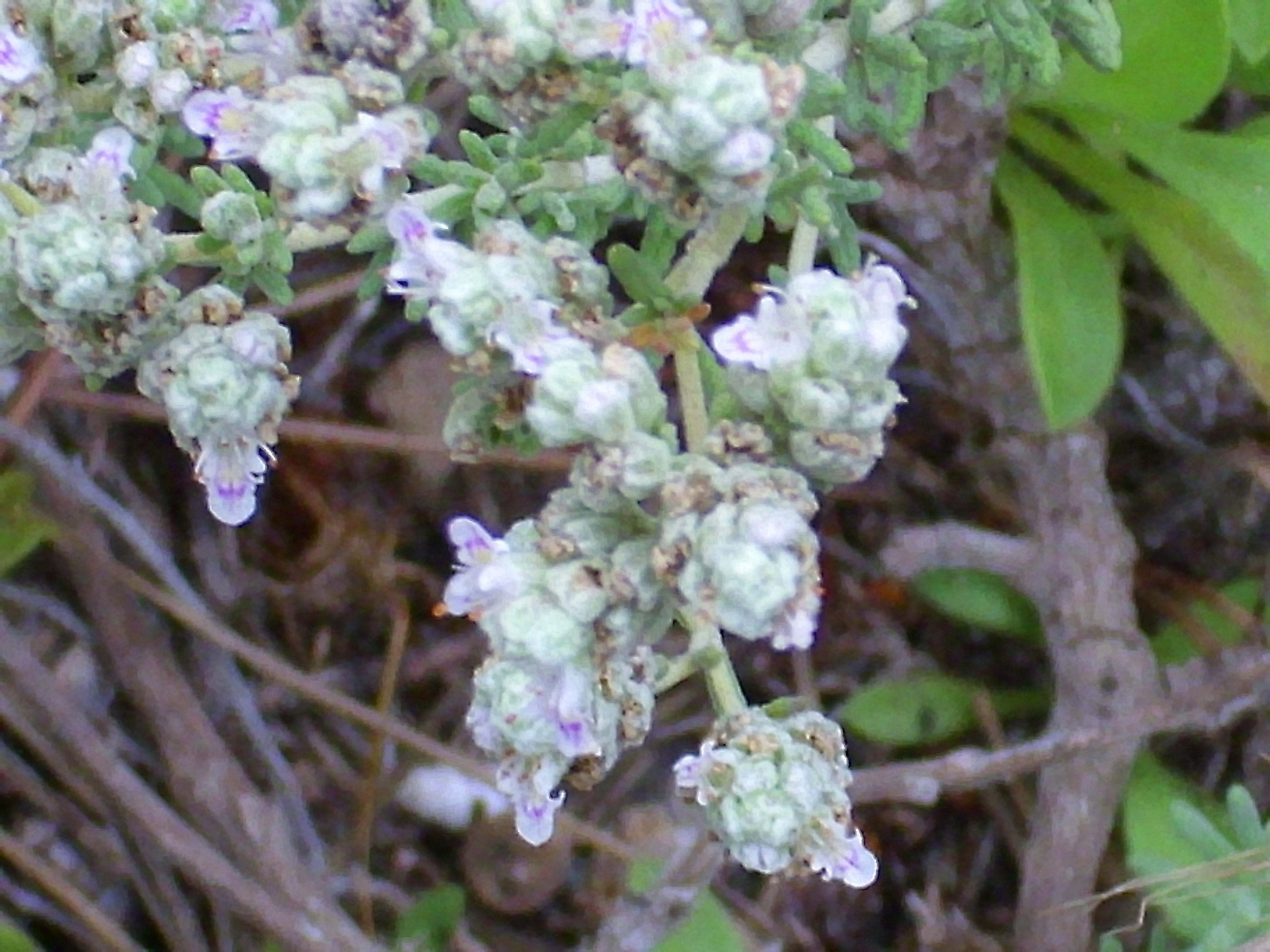 Teucrium dunense close up, La Mata, Torrevieja, Alicante, Spain.